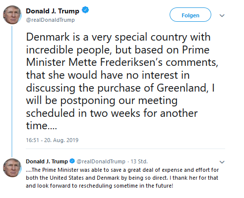 Screenshot of Trumps Twitter account tweeting on canceling queen Margareth's invitation to visit Denmark over his Greenland phantasies bust.